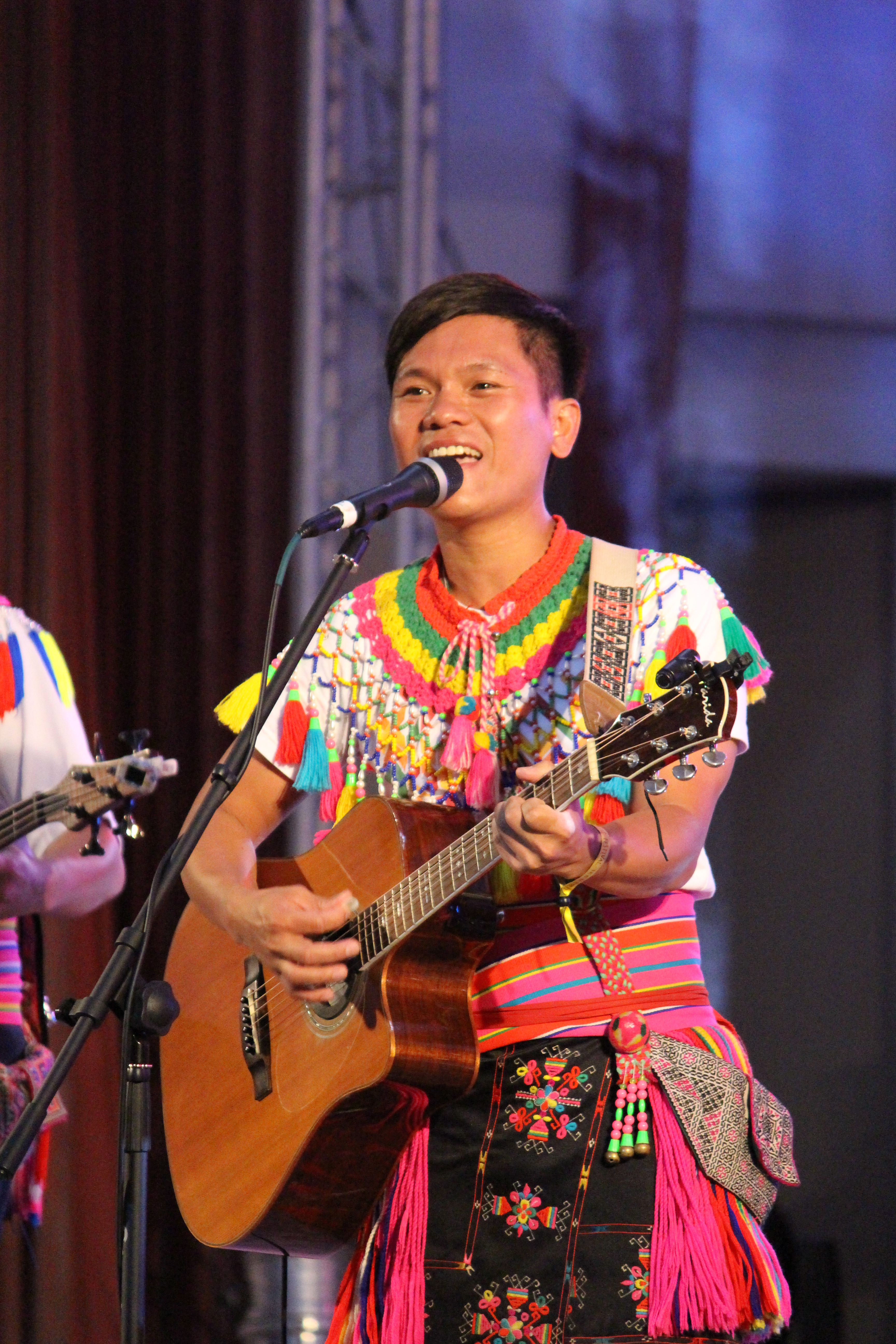 Taiwanese indigenous musician Suming Rupi (舒米恩) performing at the 2016 Amis Music Festival (阿米斯音樂節) in Dulan Village (都蘭), Taitung County, Taiwan